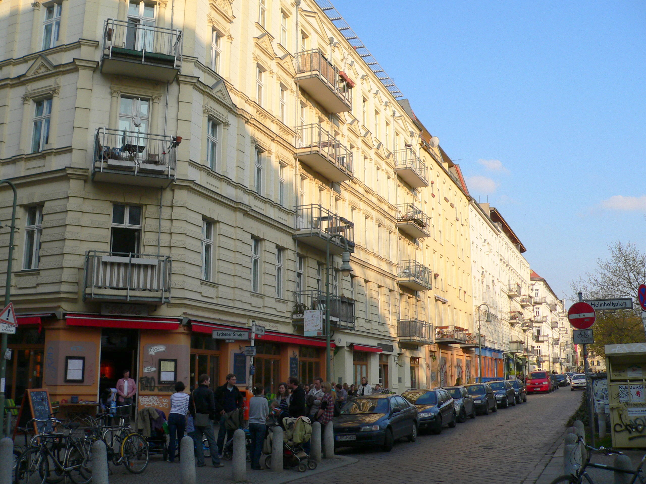 Berlin-Prenzlauer Berg Lettestraße